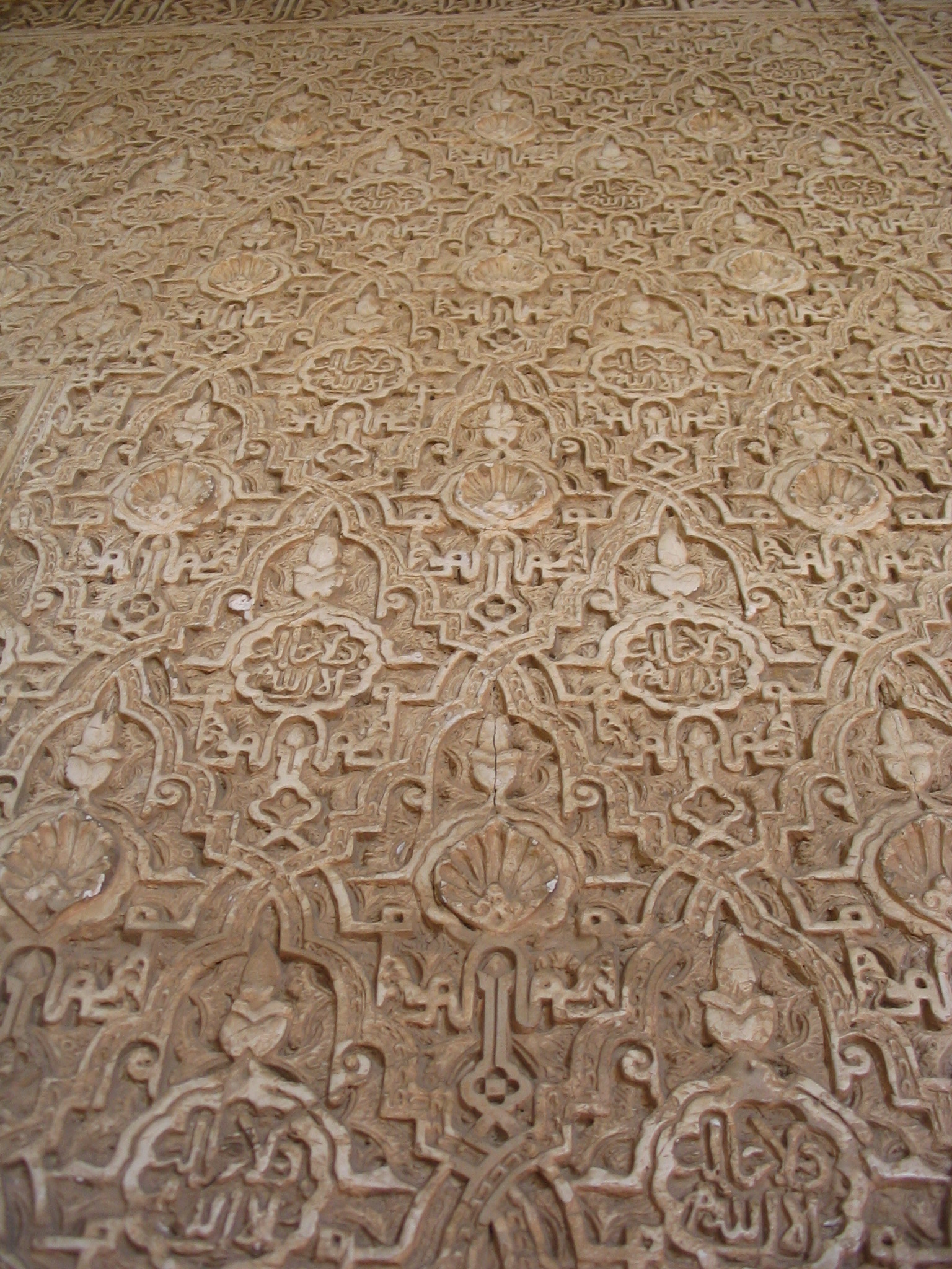 Picture taken by myself.